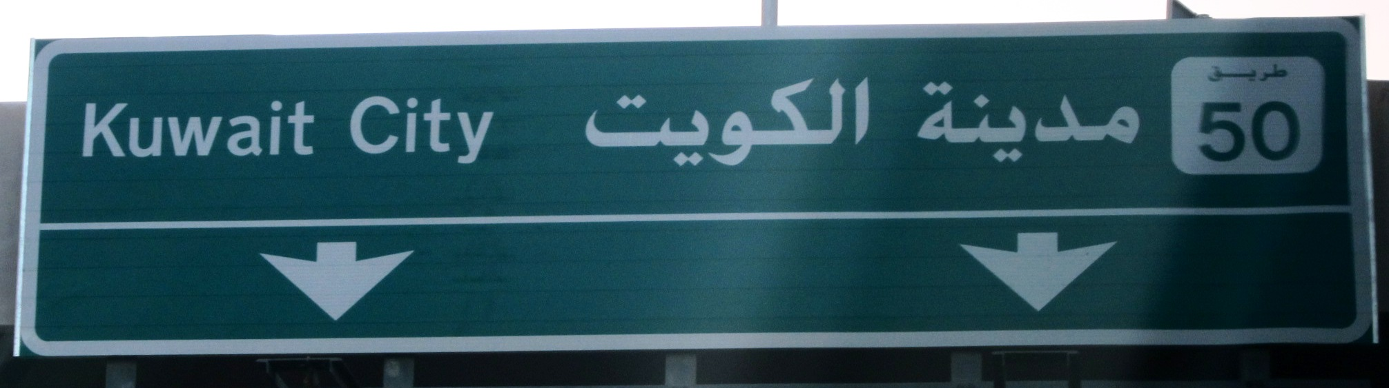 sign indicating Kuwait City in the street